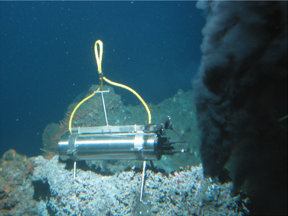 The digital acoustic recording system deployed at the Puffer vent in September 2005. The cylindrical titanium pressure case housed the battery and recording electronics. The “case” hydrophone was attached to the stand assembly just above the bulkhead connectors at one end of the case.